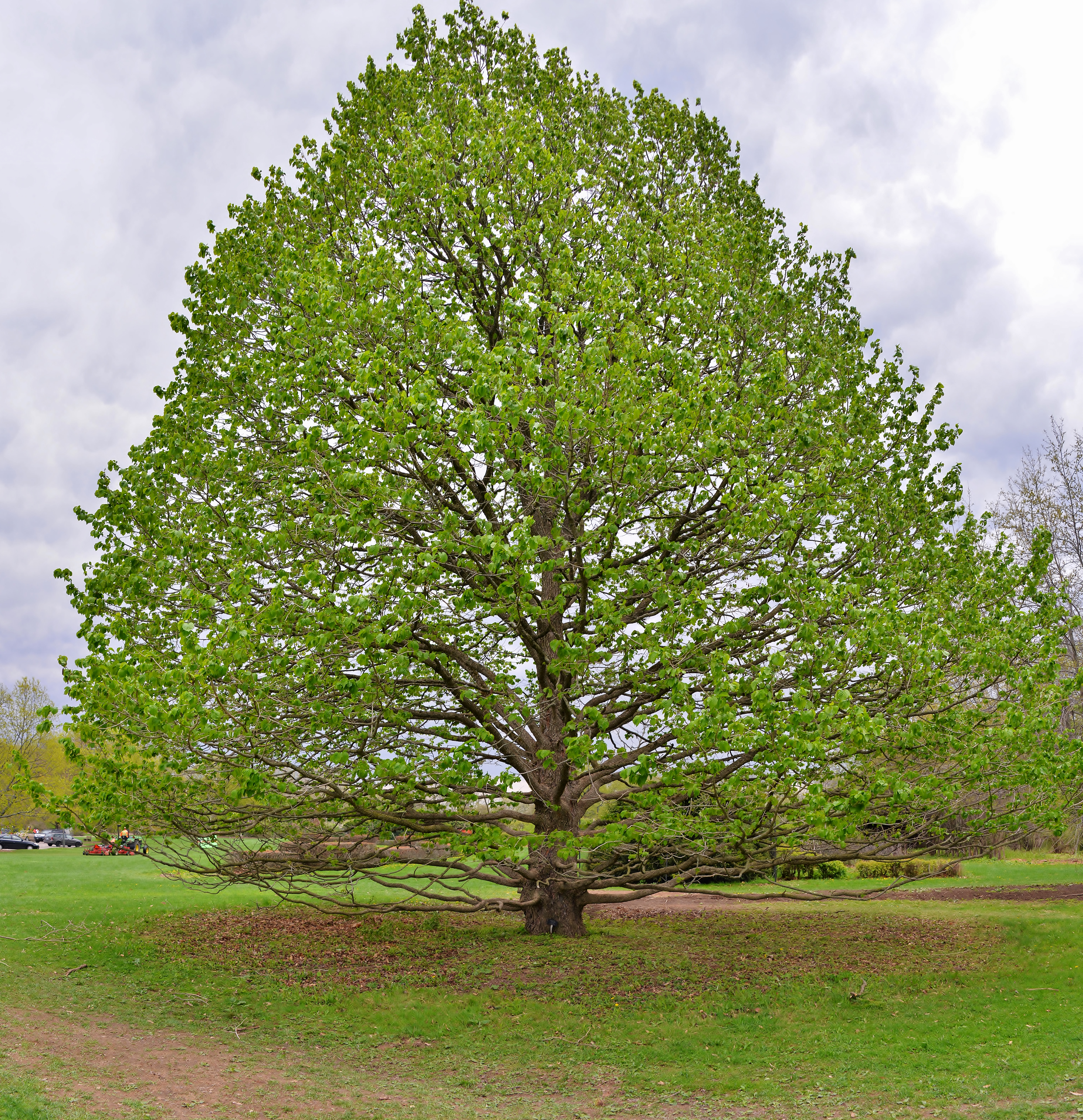 Turkish hasel (Corylus colurna) in Royal Botanical Gardens near Hamilton, Ontario, Canada